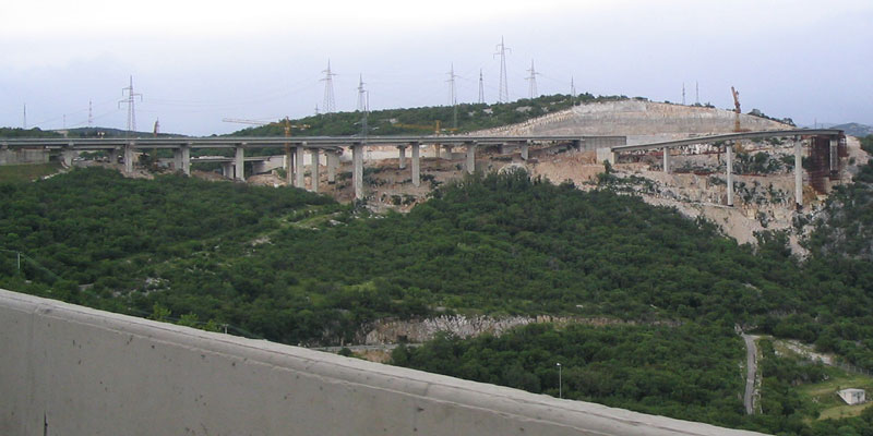 Road junction just above city of Bakar, Croatia, under construction at that time